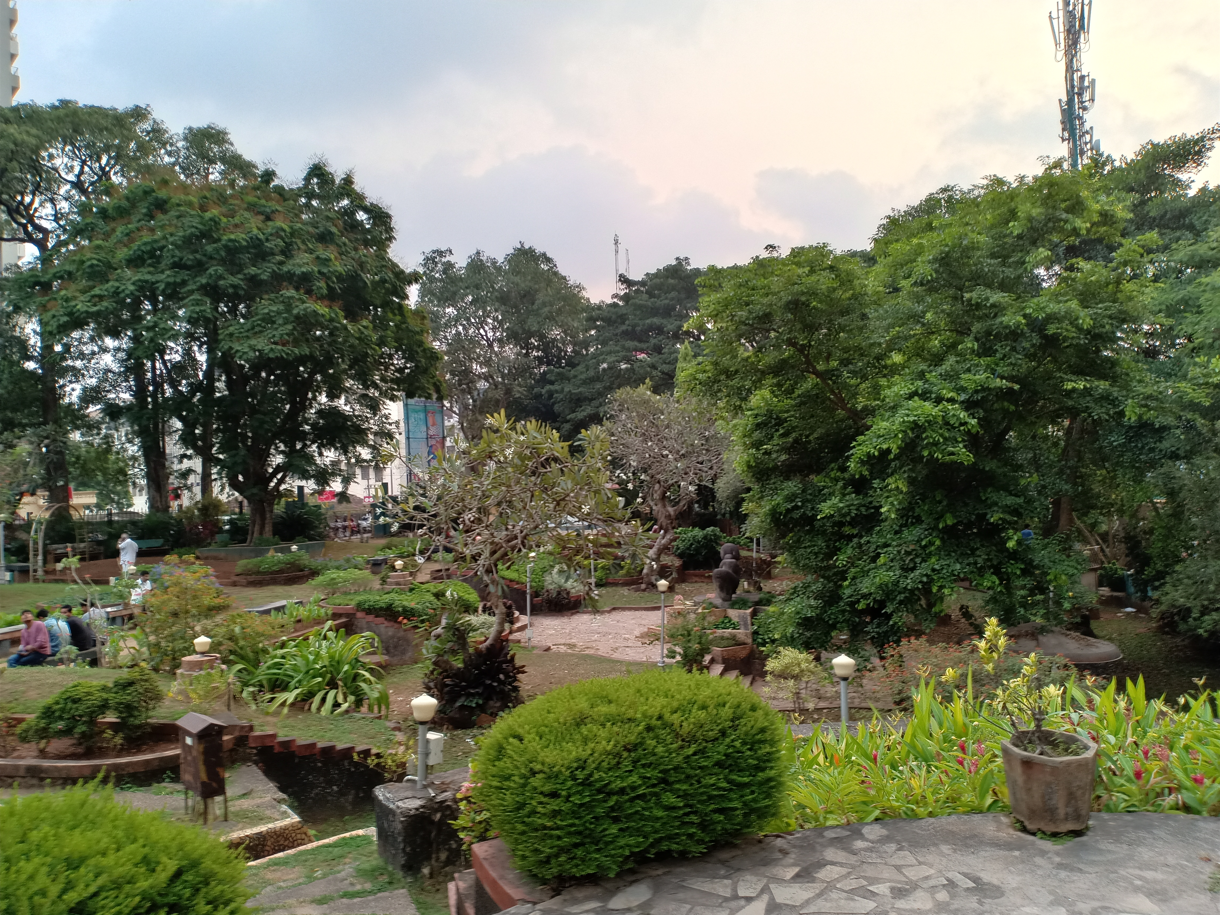 Tagore Park in Mangalore